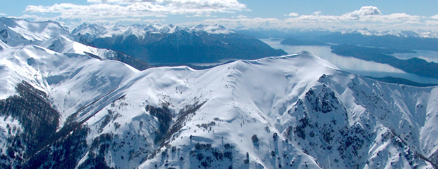 Panoramic view from Cerra Catedral to the Andes